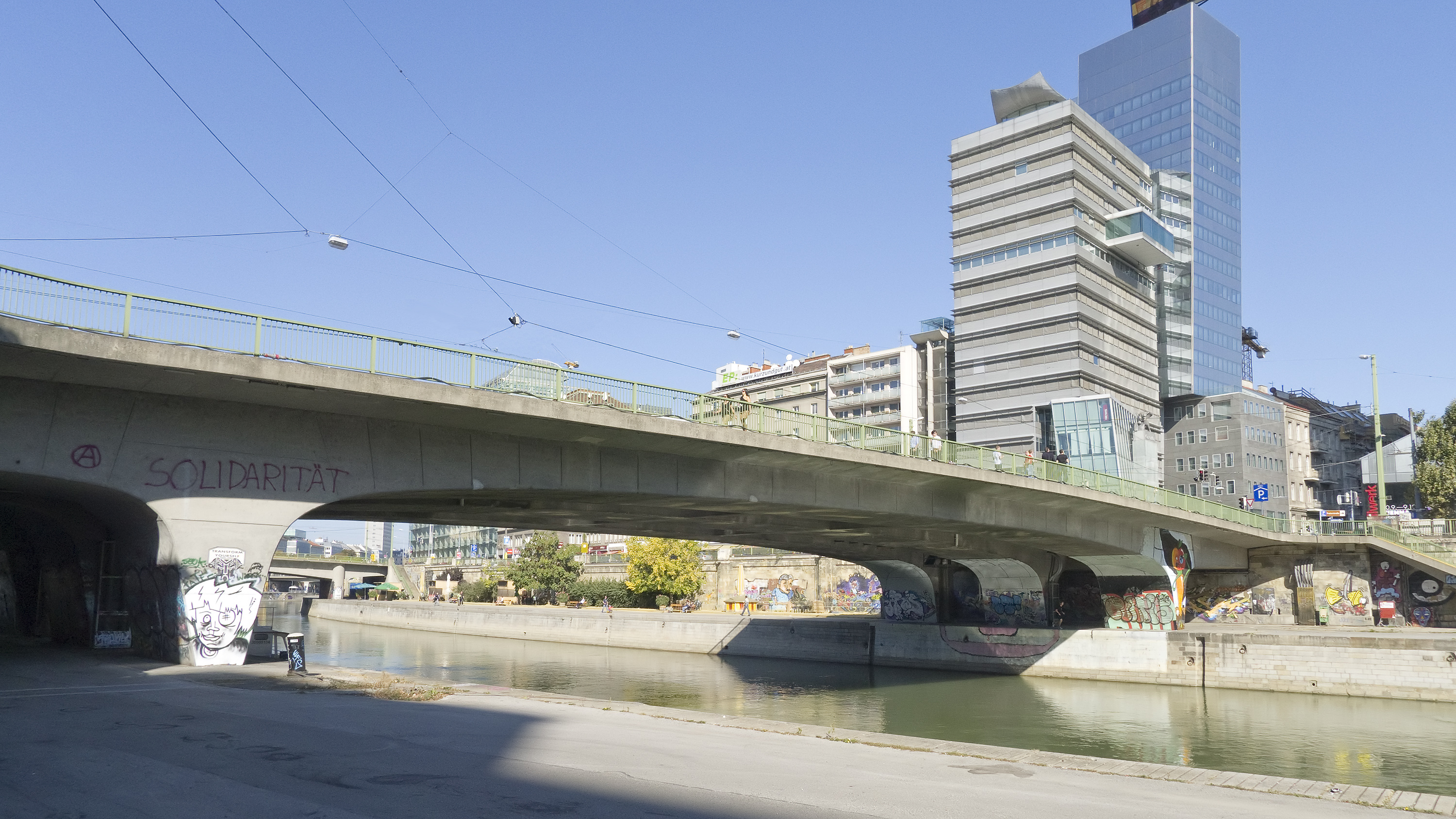 Schwedenbrücke in Vienna 1/2